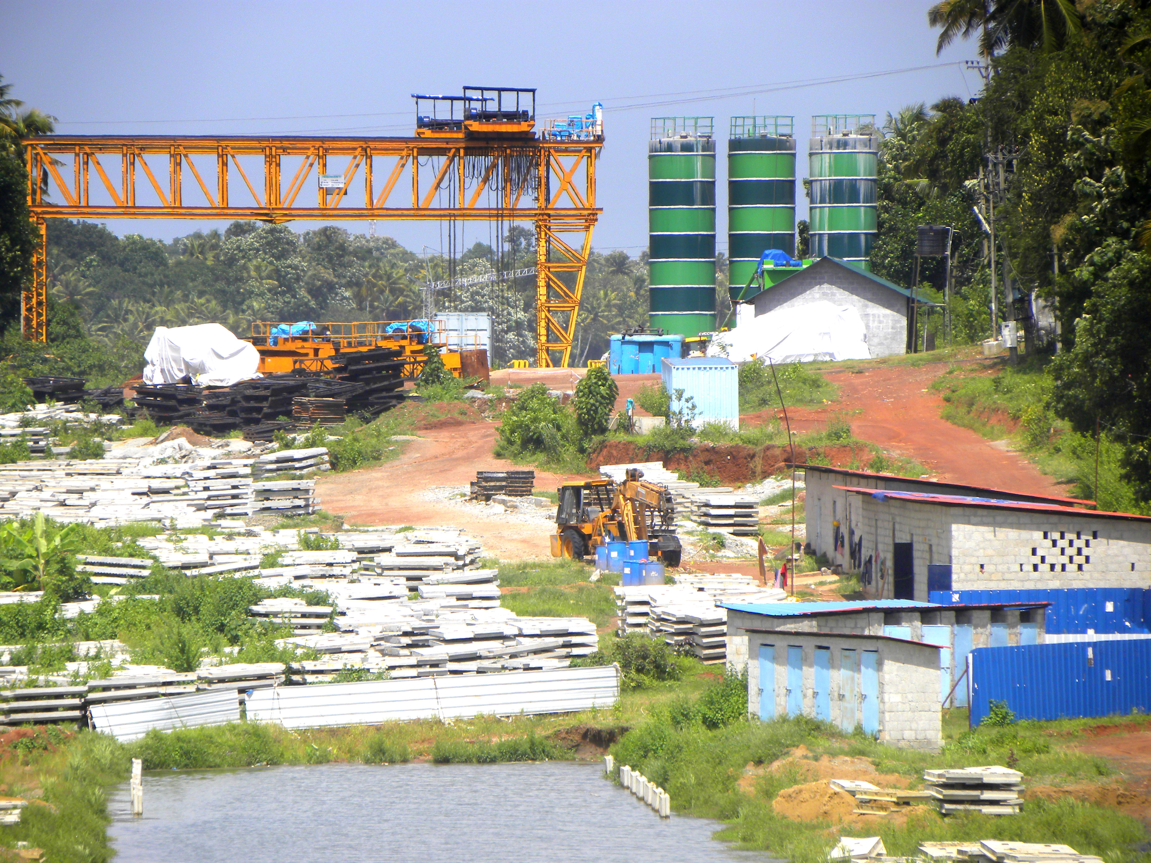 Kollam Bypass is a road under construction in the NH 47 that bypasses CBD of the historic Kollam City in Kerala, India.